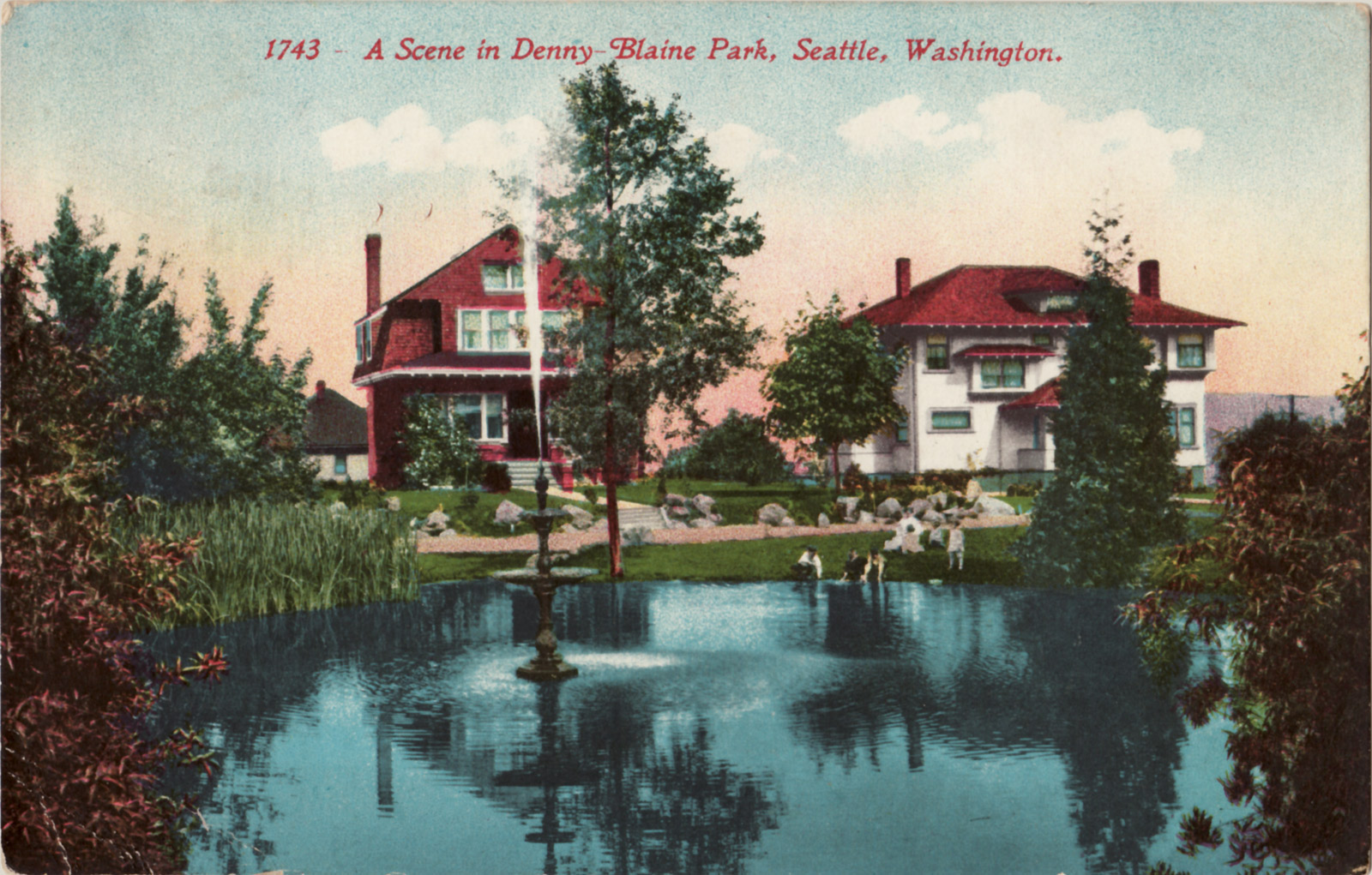 Postcard showing Denny-Blaine Park in Seattle, 1912